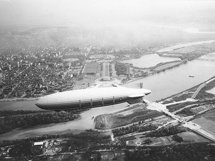 USS Akron (ZRS-4) flying over Arlington, with the Potomac River and Washington, D.C. in the background, circa 1931-1932. Note construction work on the Virginia approaches to the Arlington Memorial Bridge, with the Lincoln Memorial and the Reflecting Pool at the bridge's D.C. end. The Munitions and Main Navy Buildings are visible on the north (left) side of the Reflecting Pool. Columbia Island can be seen just below and to the right of the airship's tail fins.